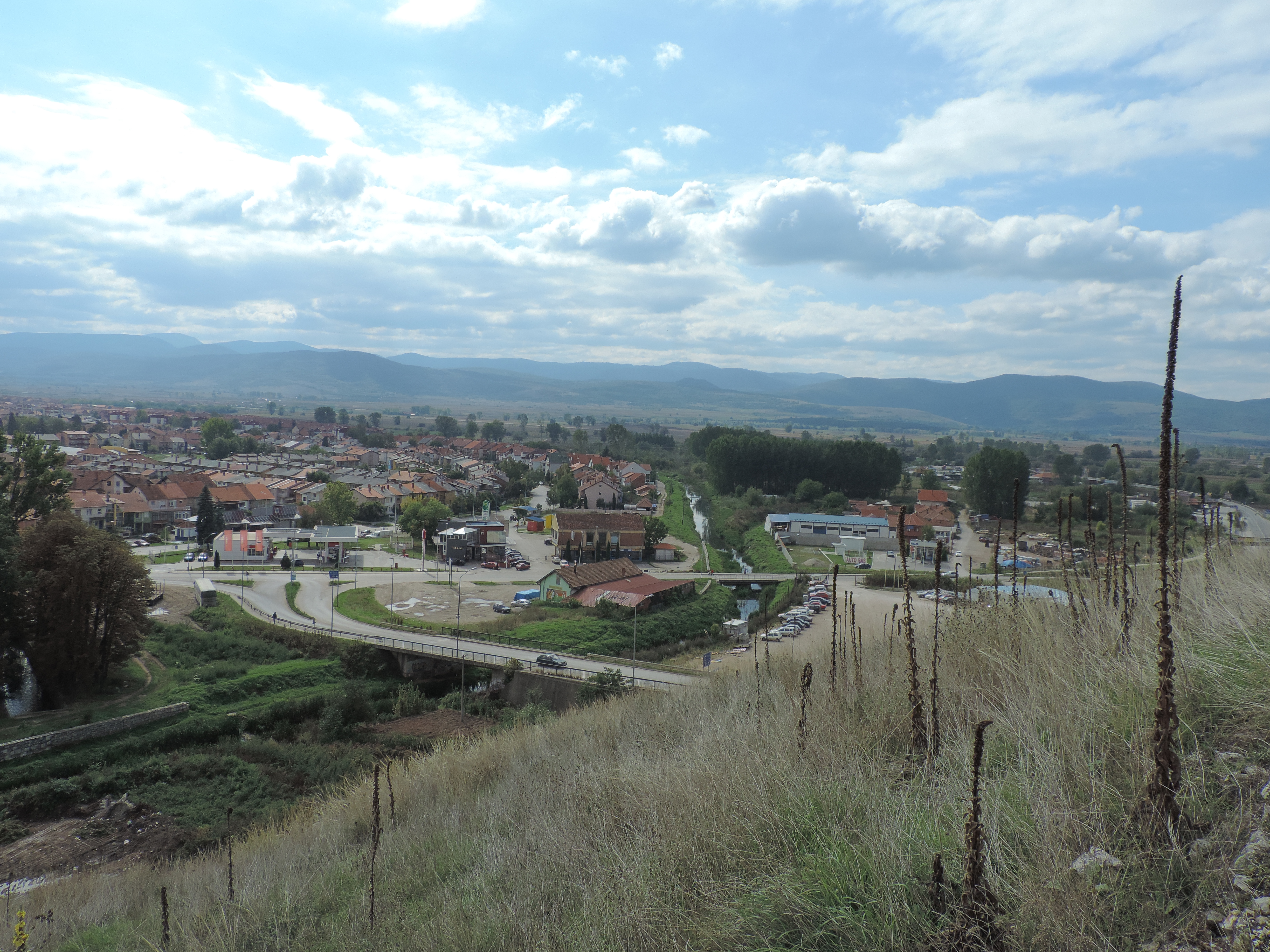 Pirot, Serbia